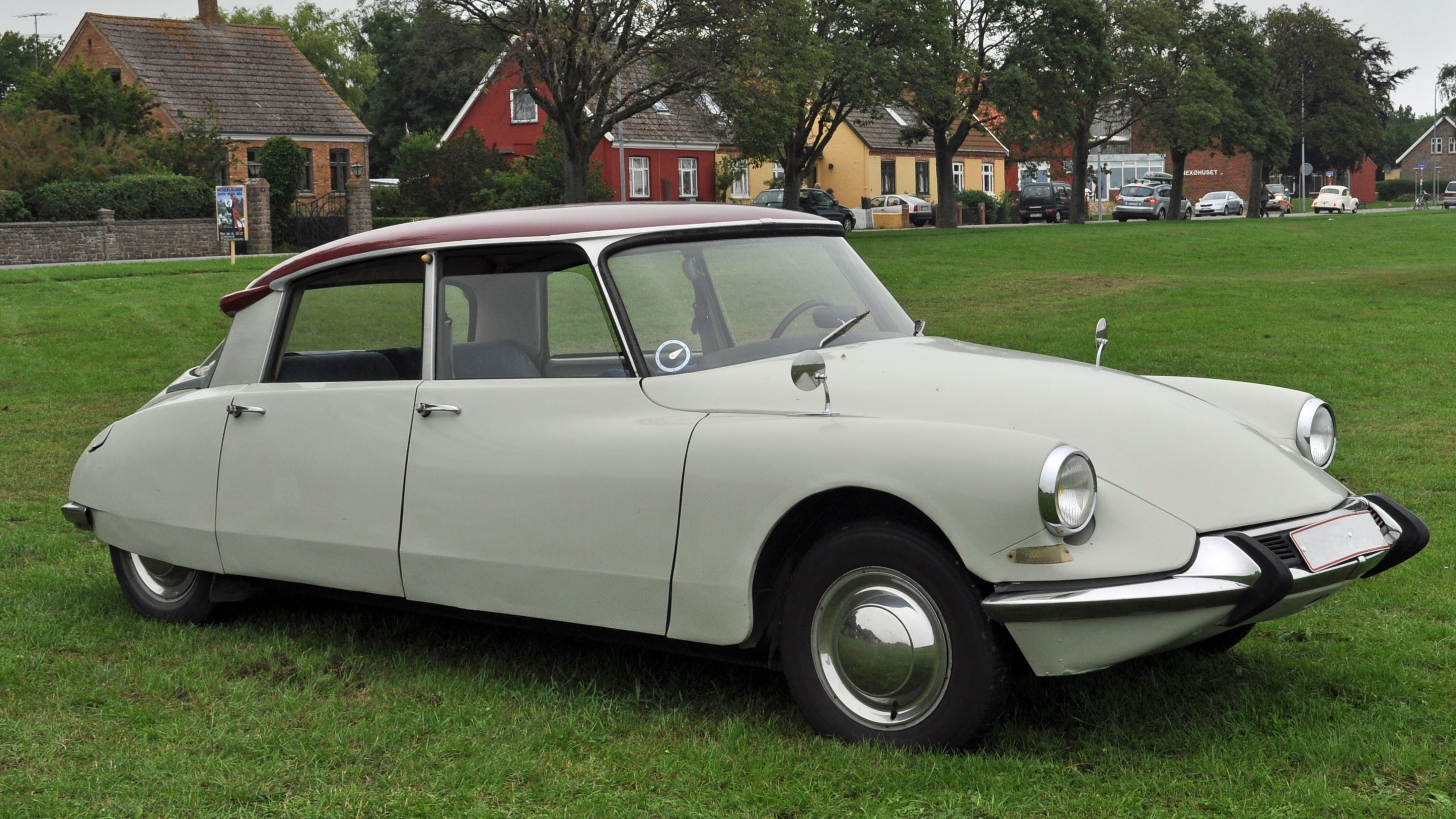 I edited the original image for use on my ad-supported automotive website (Ate Up With Motor), obscuring the numberplate. This is the edited version.